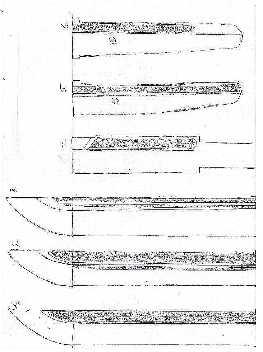 Types of the Hi 1